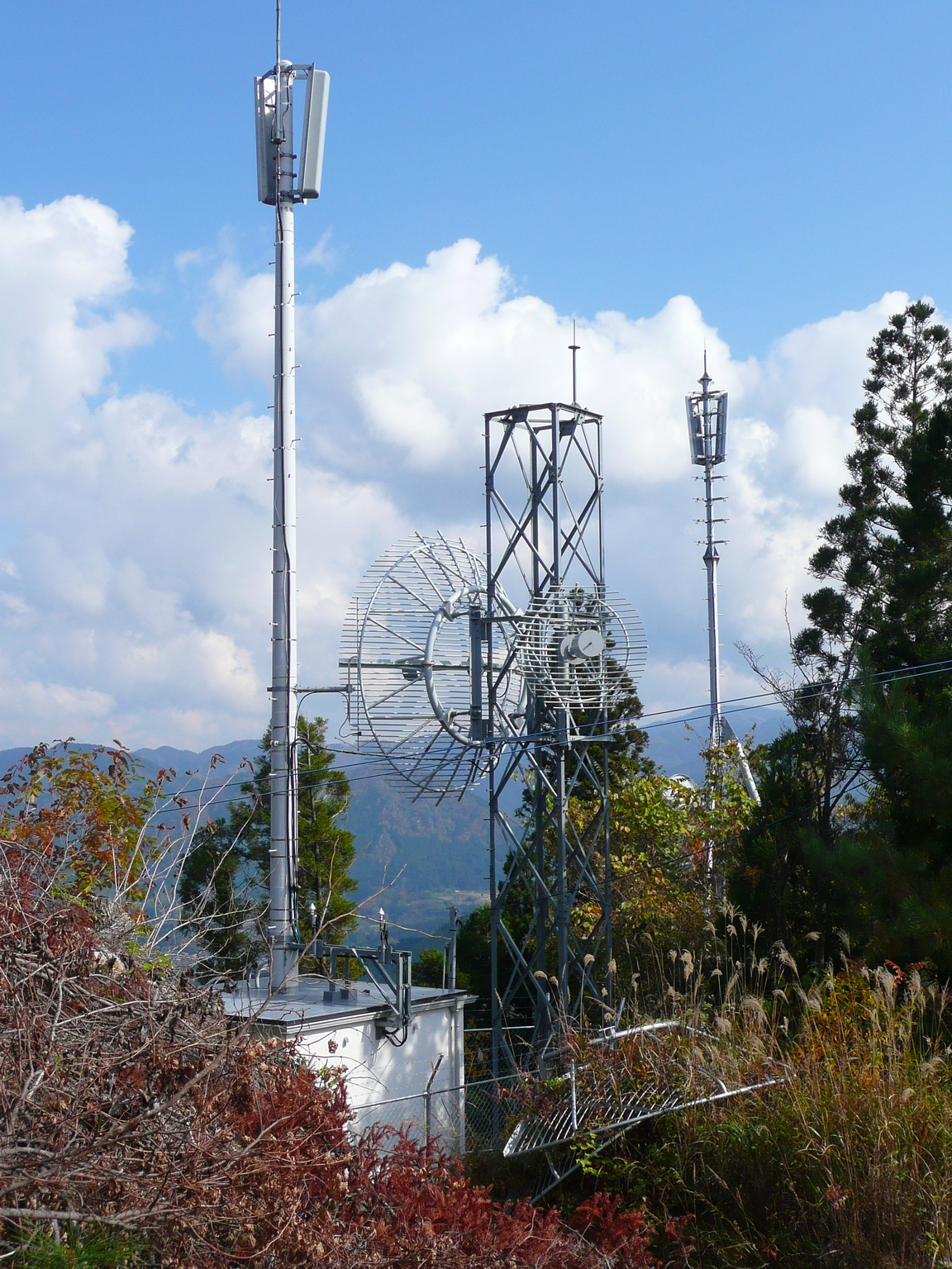 The Gokase Repeater (MRT,UMK) is located in Miyazaki Prefecture, Japan.